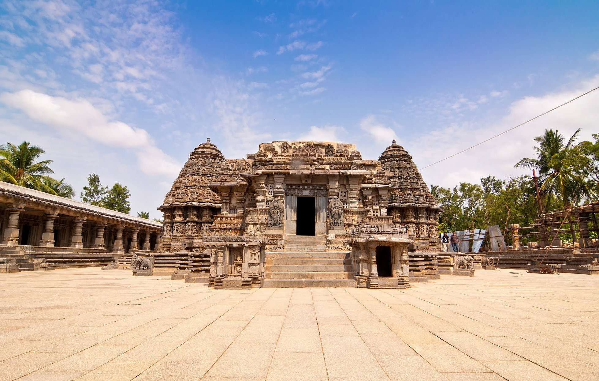 Keshava Temple of Hoysala Architecture at Somanathapura, Karnataka